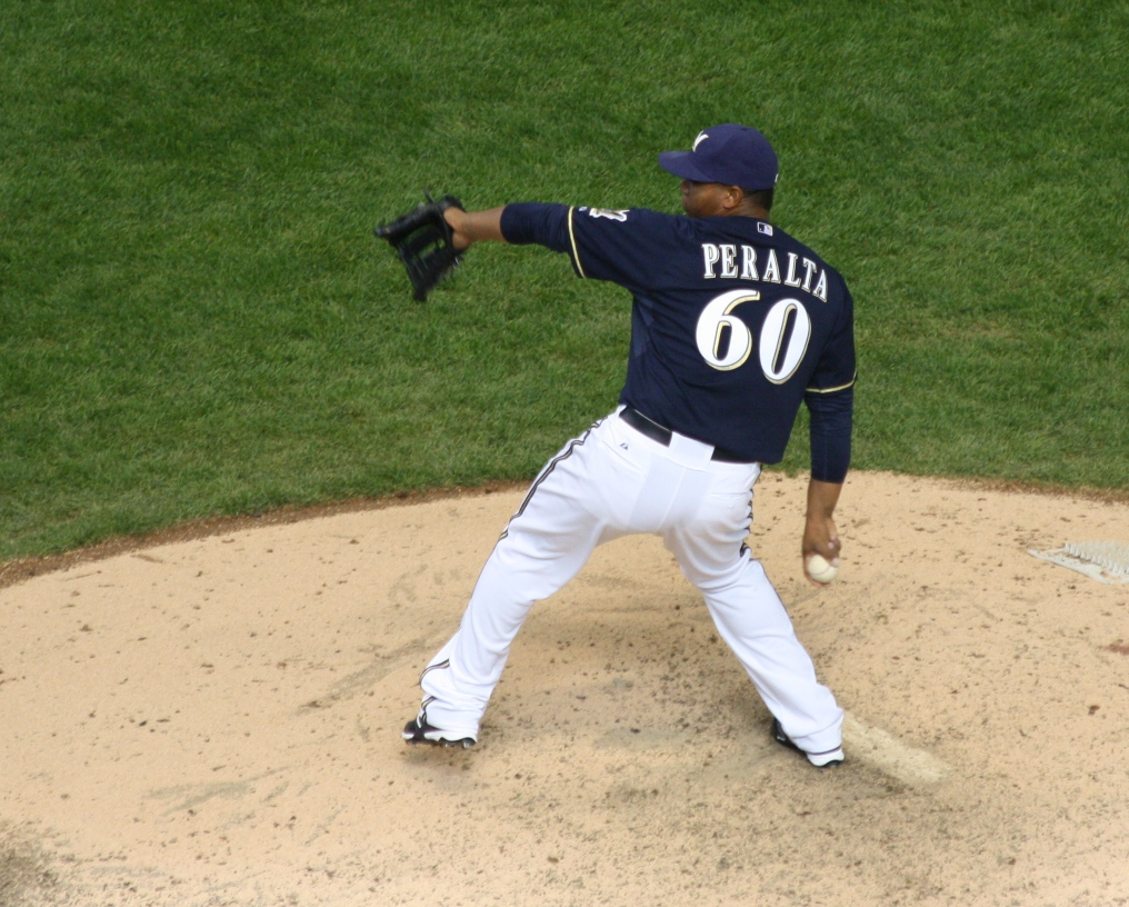 Pitcher Wily Peralta during his Major League Baseball debut in the 9th inning